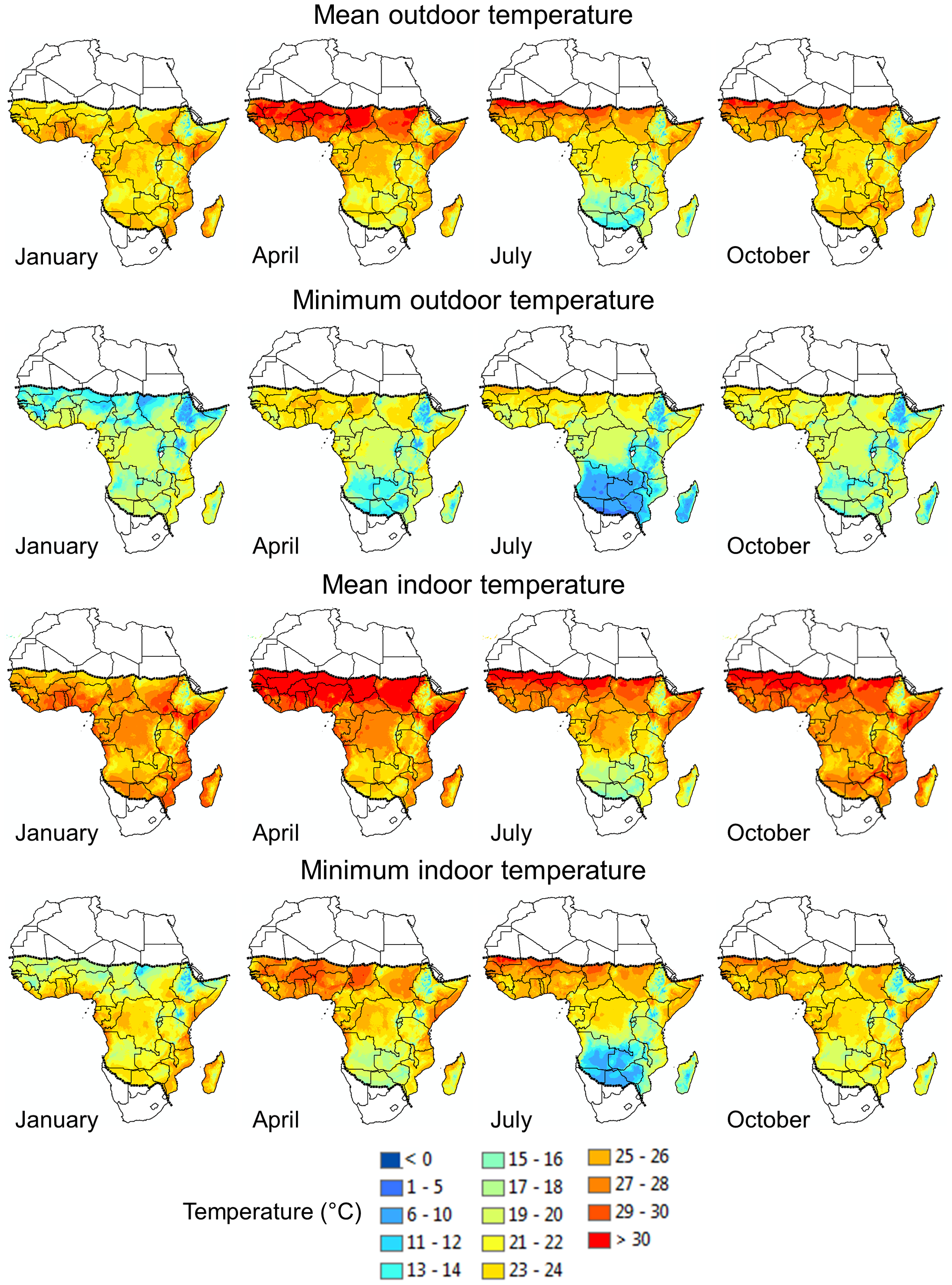 Monthly mean and minimum outdoor and indoor temperatures throughout Africa for January, April, July, and October. Outdoor monthly mean (top row) and minimum (second row) temperatures. Temperature surfaces were generated by interpolation using weather station data collected between 1960 and 1990. For areas where data records were limited, such as in the Democratic Republic of the Congo, the time period was extended to 2000 (see [45] for details). The current geographical limits of malaria transmission are demarcated by the dotted lines. Indoor monthly mean (third row) and minimum (bottom row) temperatures. Indoor temperature estimates were determined using regression equations that capture the relationship between indoor and outdoor temperatures at different elevations. These regressions were used to convert the outdoor temperature surfaces to matching estimates of indoor temperatures (see [46] for more detailed information).